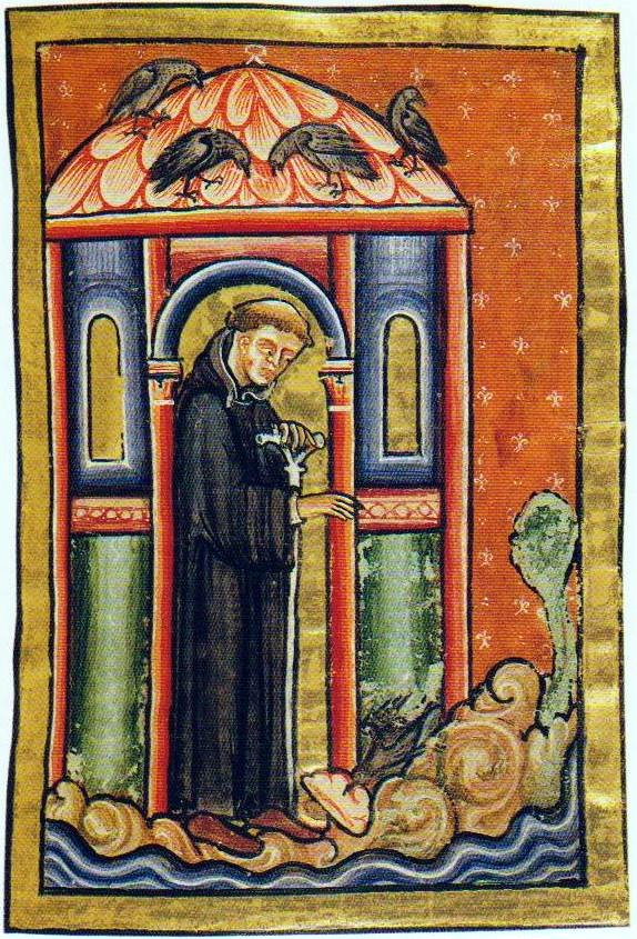 A miniature in the British Library Yates Thomson MS 26, Bede's Prose Life of St Cuthbert, depicting the miracle where ravens bring pig lard to Cuthbert on Farne